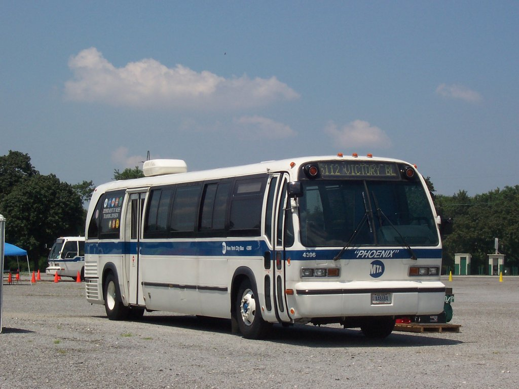 1985 NYC Transit #4396 (since renumbered to 0010), the Phoenix bus rebuilt after it burned up on its first day in service, is on display at the 2006 MTA Bus Roadeo.